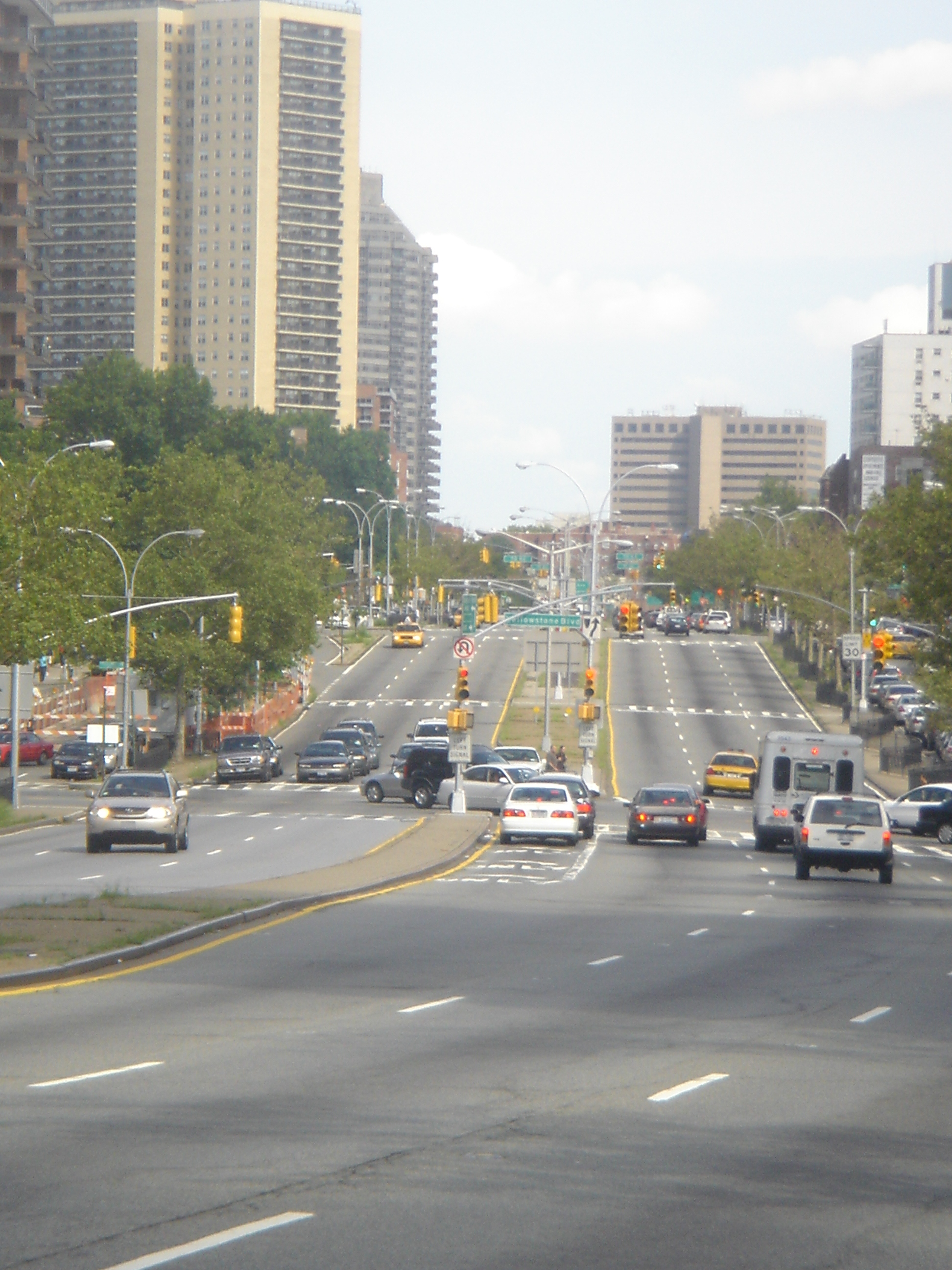 Eastbound Queens Boulevard, approaching Yellowstone Bouelvard in Forest Hills, Queens, New York City.